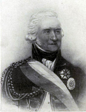 General John Forbes Skellater (1733-1808), a Scottish officer at the service of the Portuguese Army.